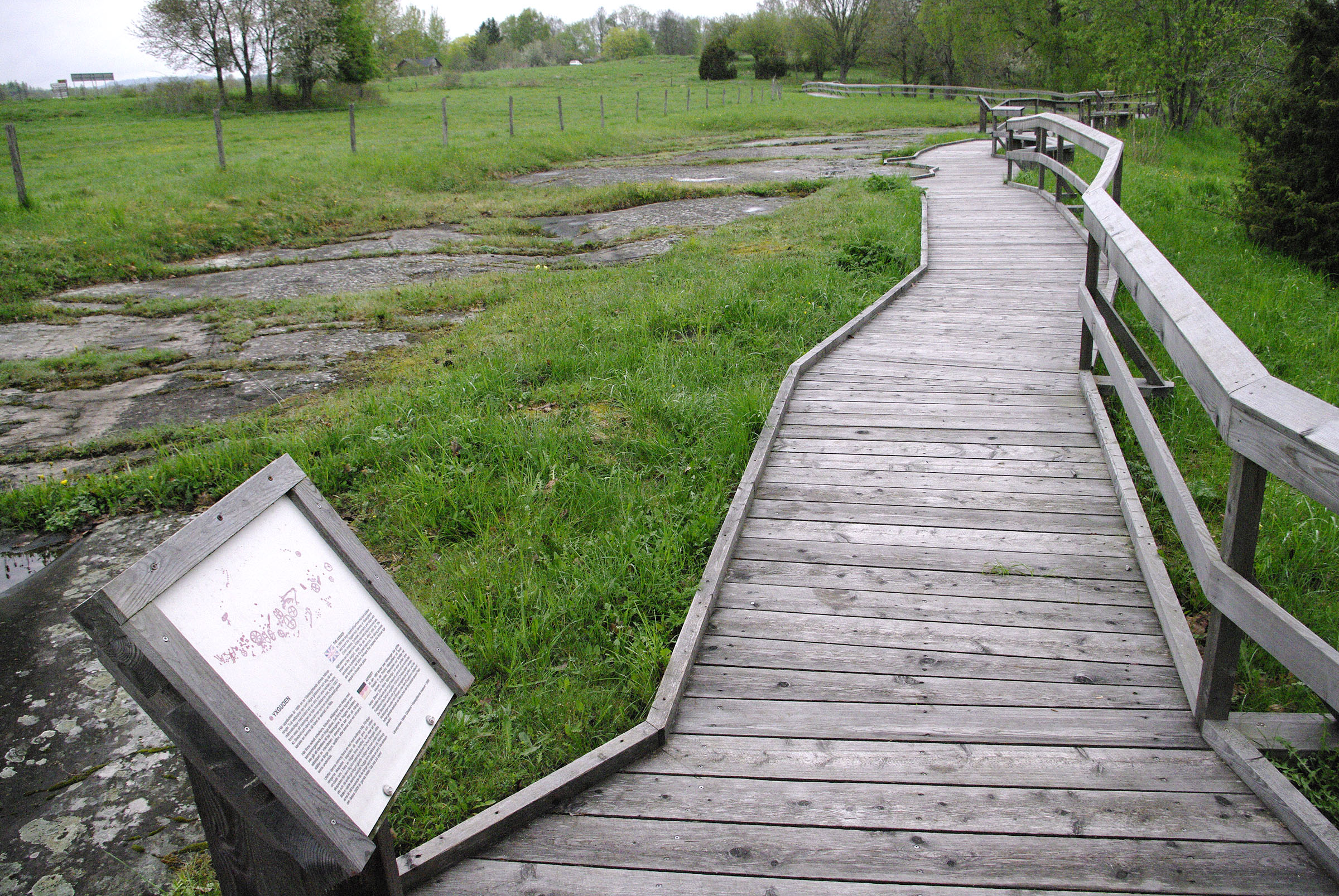 Rock carvings from bronzeage about 1000 B.C. from Flyhov, Sweden.